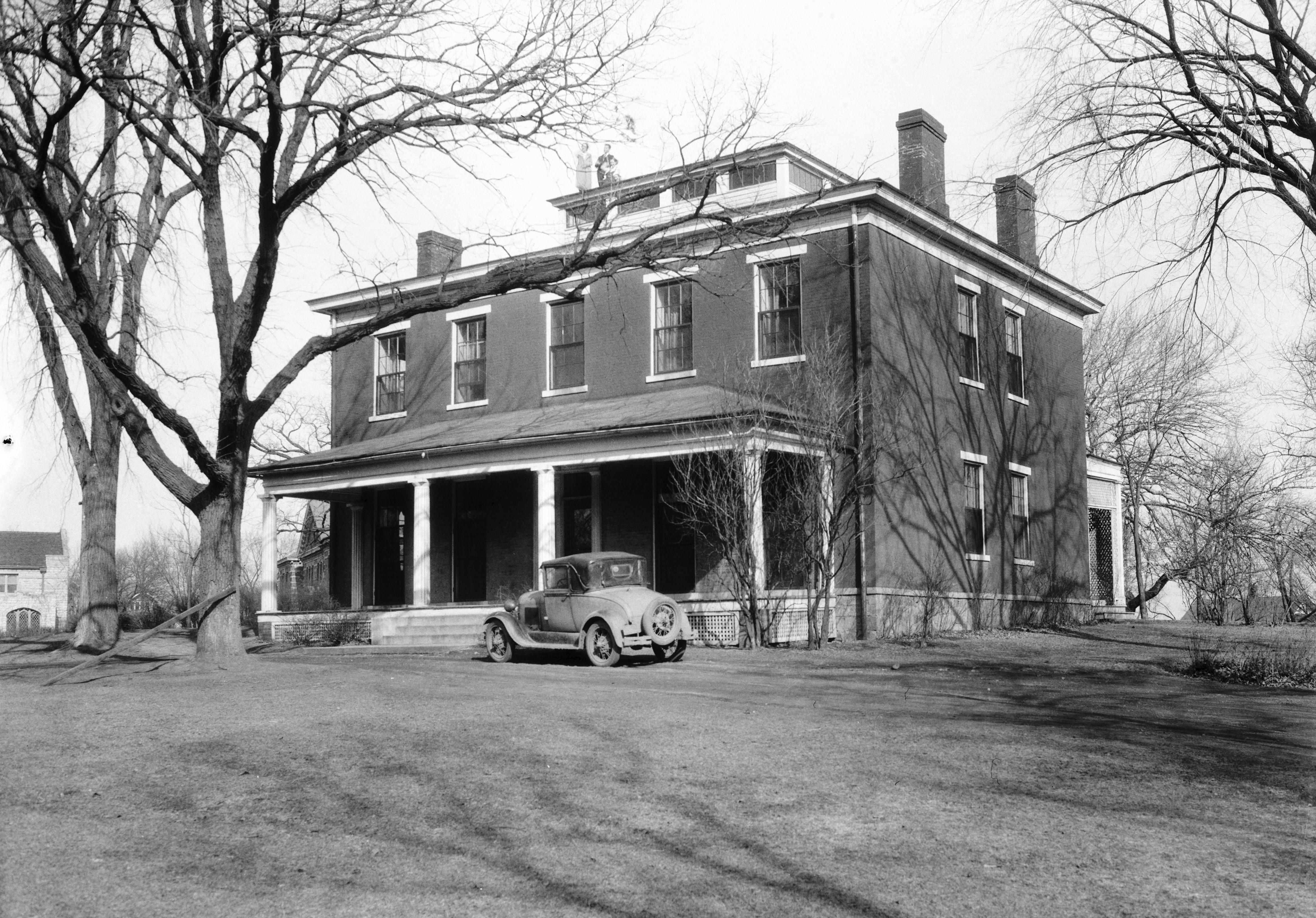 Front of Ewing Hall on the campus of the former Parsons College in Fairfield County, Iowa, United States. It is part of the Architecture of Henry K. Holsman Historic Campus District, which is listed on the National Register of Historic Places, even though most of the buildings have been destroyed by the Maharishi University of Management.